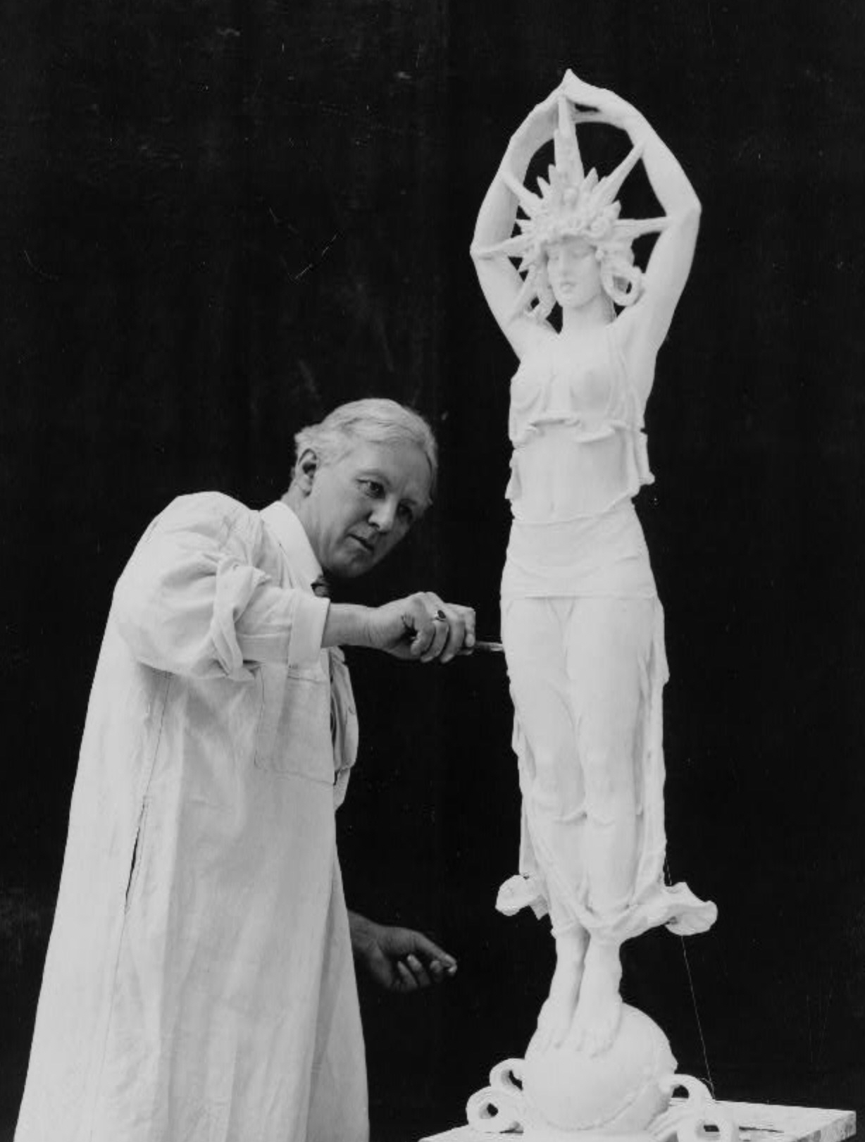 Alexander Stirling Calder (1870-1945), US-American sculptor, working on sculpture for the Panama-Pacific International Exposition in San Francisco. The model is Audrey Munson.